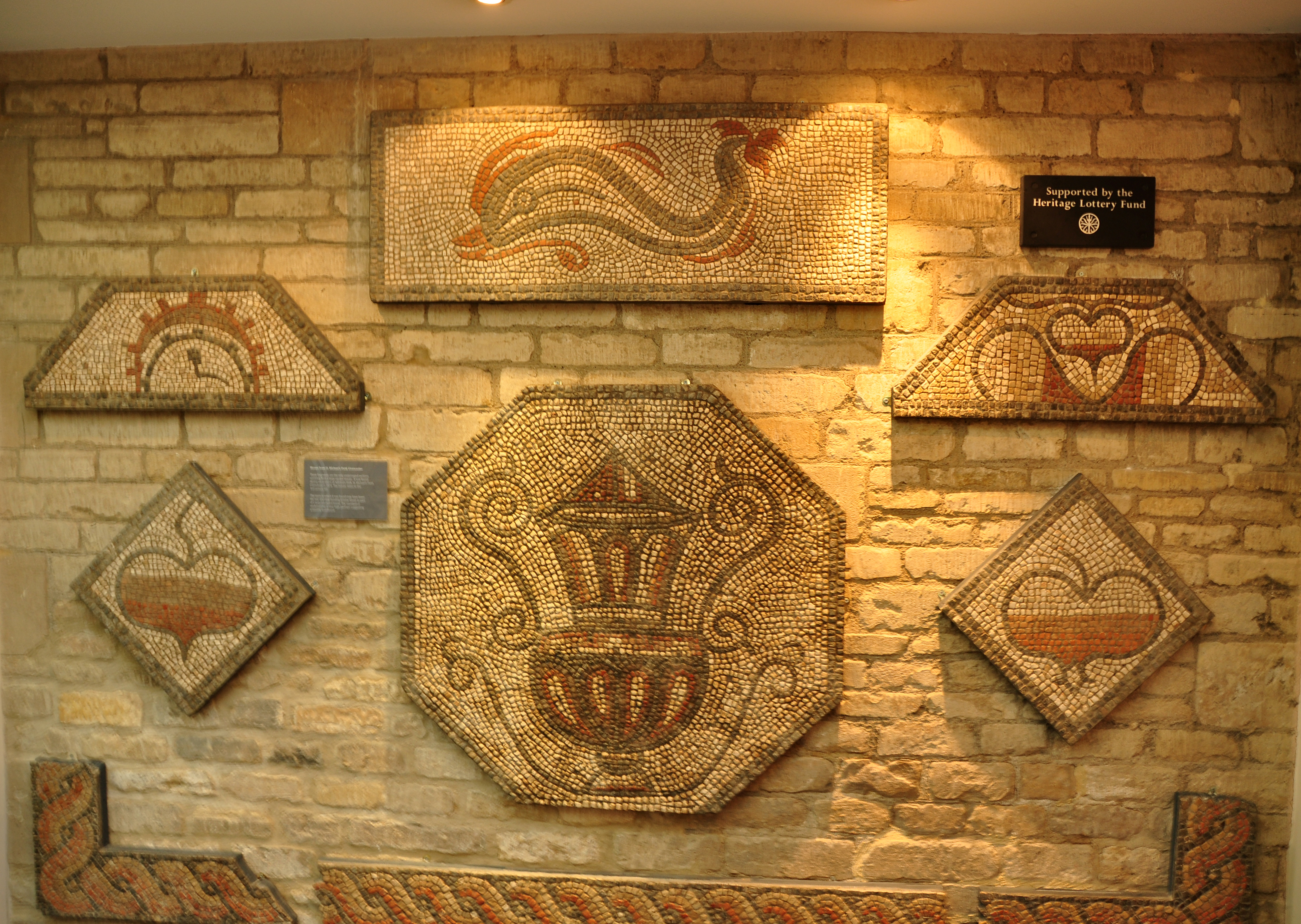 Mosaics in the Corinium Museum in Cirencester, Gloucestershire. Second century AD; found at St Michael's Field, Admirals Walk in 1974